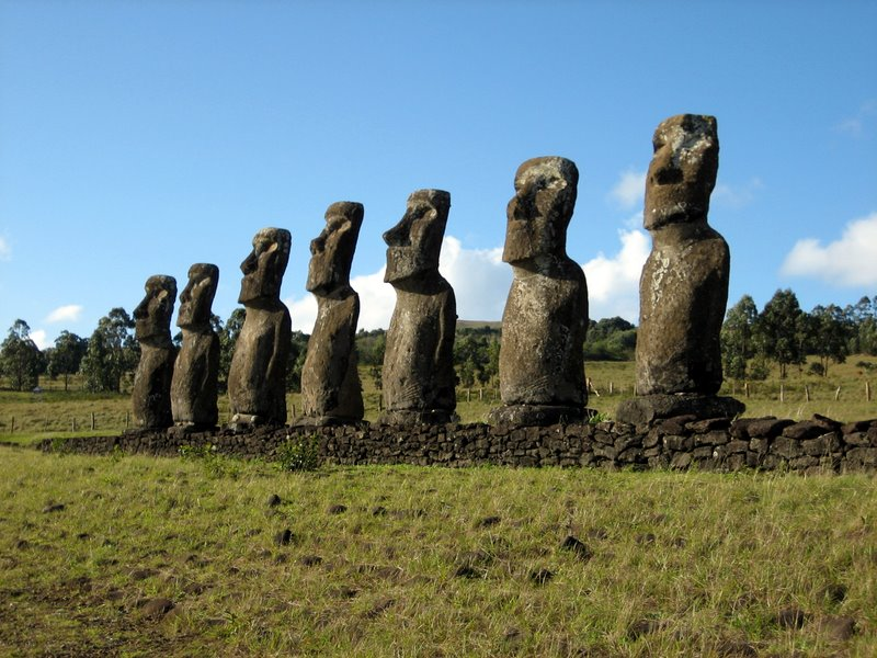 Photo taken by Ian Sewell, July 2006 Ahu Akivi are the only moai that face the ocean.